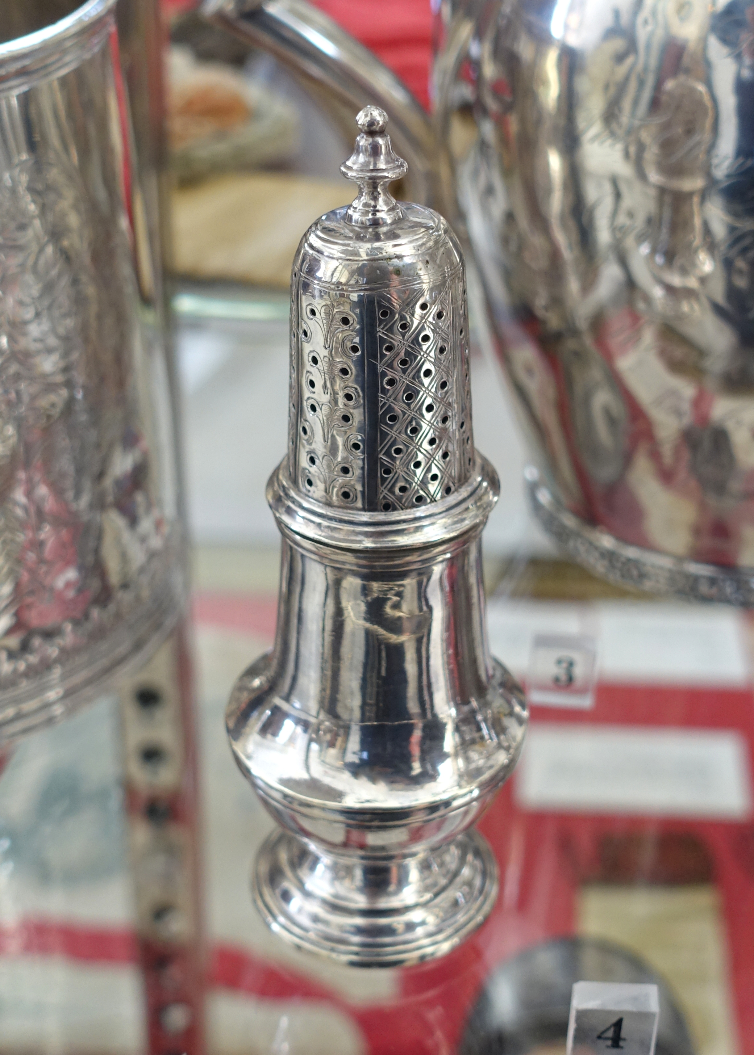 Exhibit in the Bennington Museum - Bennington, Vermont, USA. This work is in the public domain because the artist died more than 70 years ago.